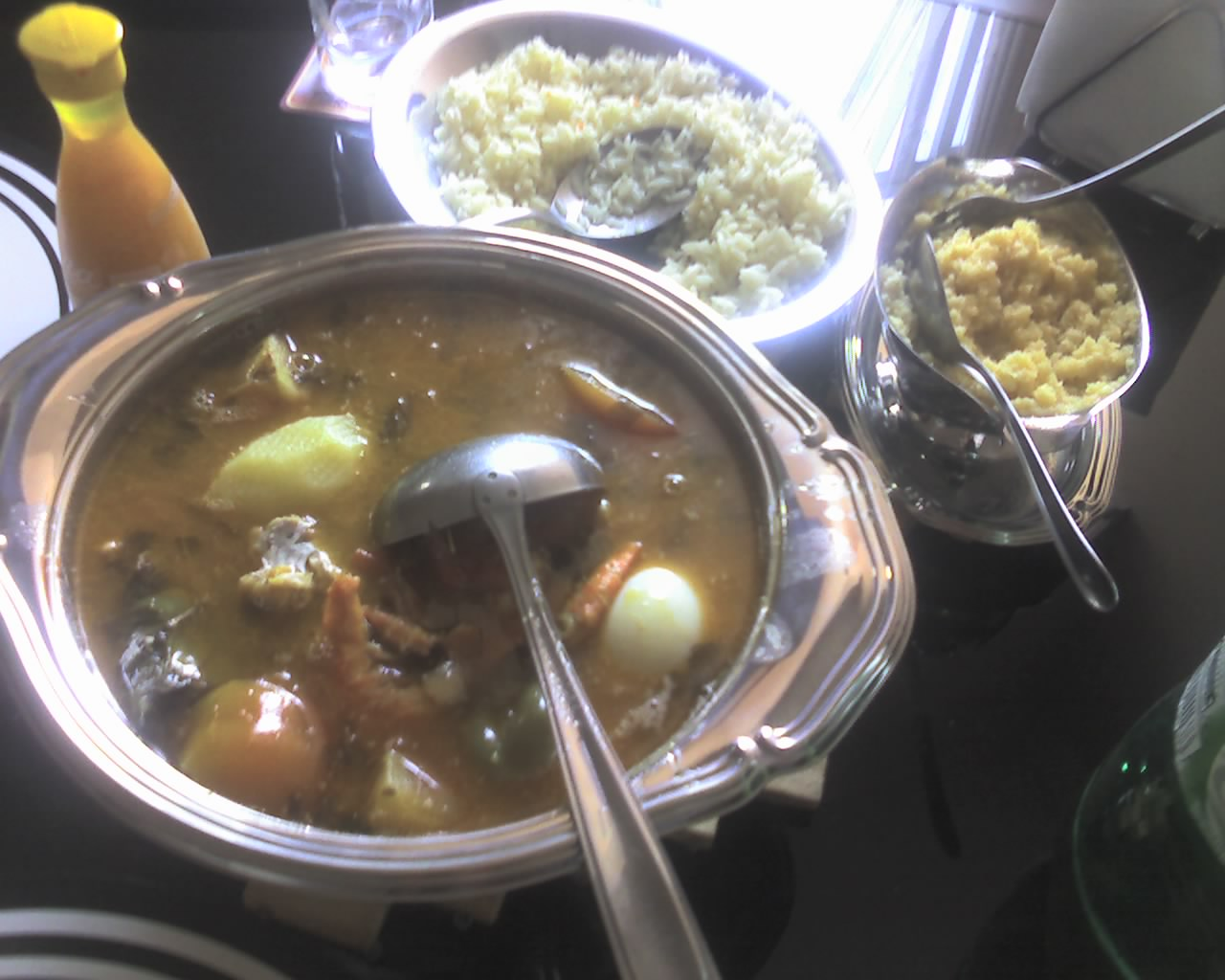 Caldeirada Paraense, a Brazilian stew from Belém made with fish, srhimp, eggs, onion, potatoes, tomatoes, red pepper, tucupi and jambu. It must be served hot with rice and pirão.